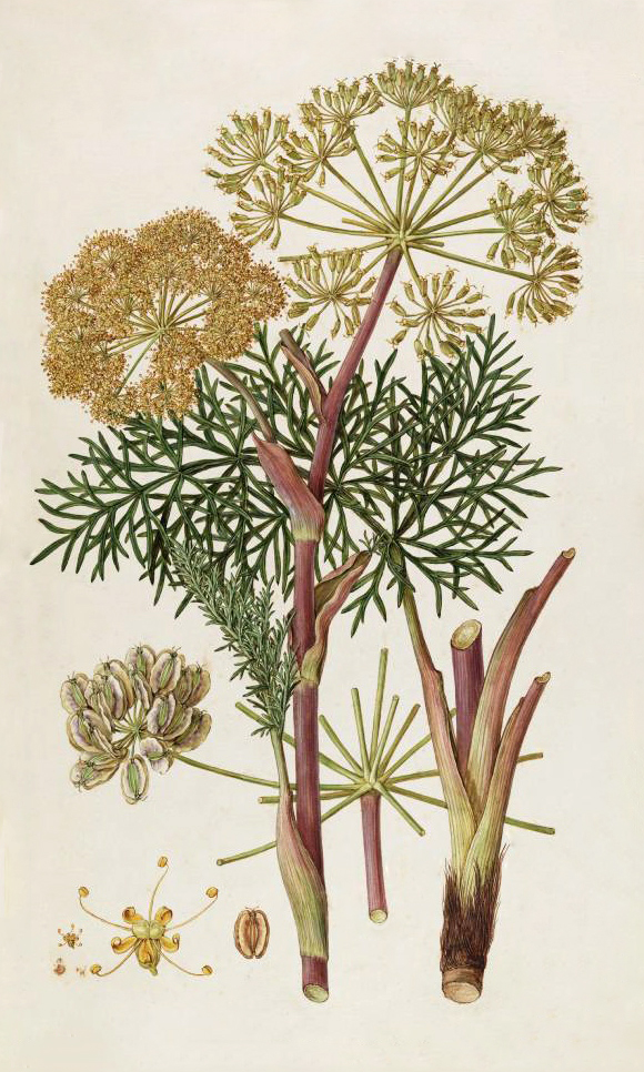 This work Thapsia_garganica is signed F. Bauer, from the drawings made for John Sibthorp's Flora Graeca. These were later used as the basis of the engravings by James Sowerby for that work. Crop.